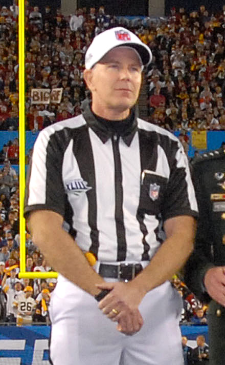 U.S. Army Gen. David H. Petraeus, commander, U.S. Central Command, talks with head Super Bowl XLIII Referee Terry McAulay prior to the coin toss, Feb. 1, 2009, at Raymond James Stadium in Tampa, Fla.